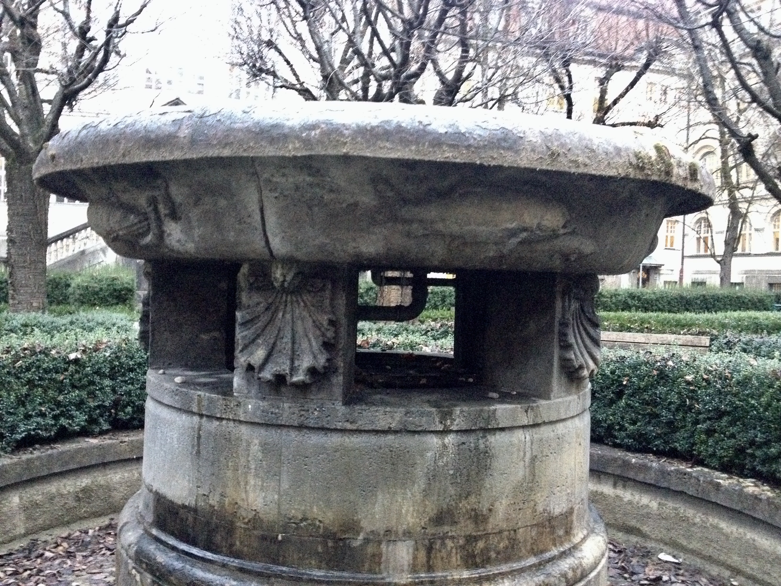 Frauenklinik in der Maistraße - Fountain in the courtyard. The reliefs were designed by Georg Roemer